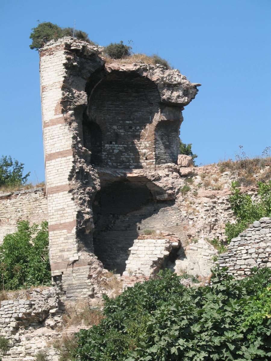 The Theodosian Walls in Constantinople. Upper and lower room inside tower.